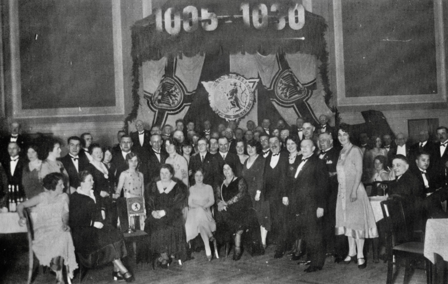 DAMC 05 - 25th anniversary 1930 in the old "Tonhalle" at the Shadowstraße